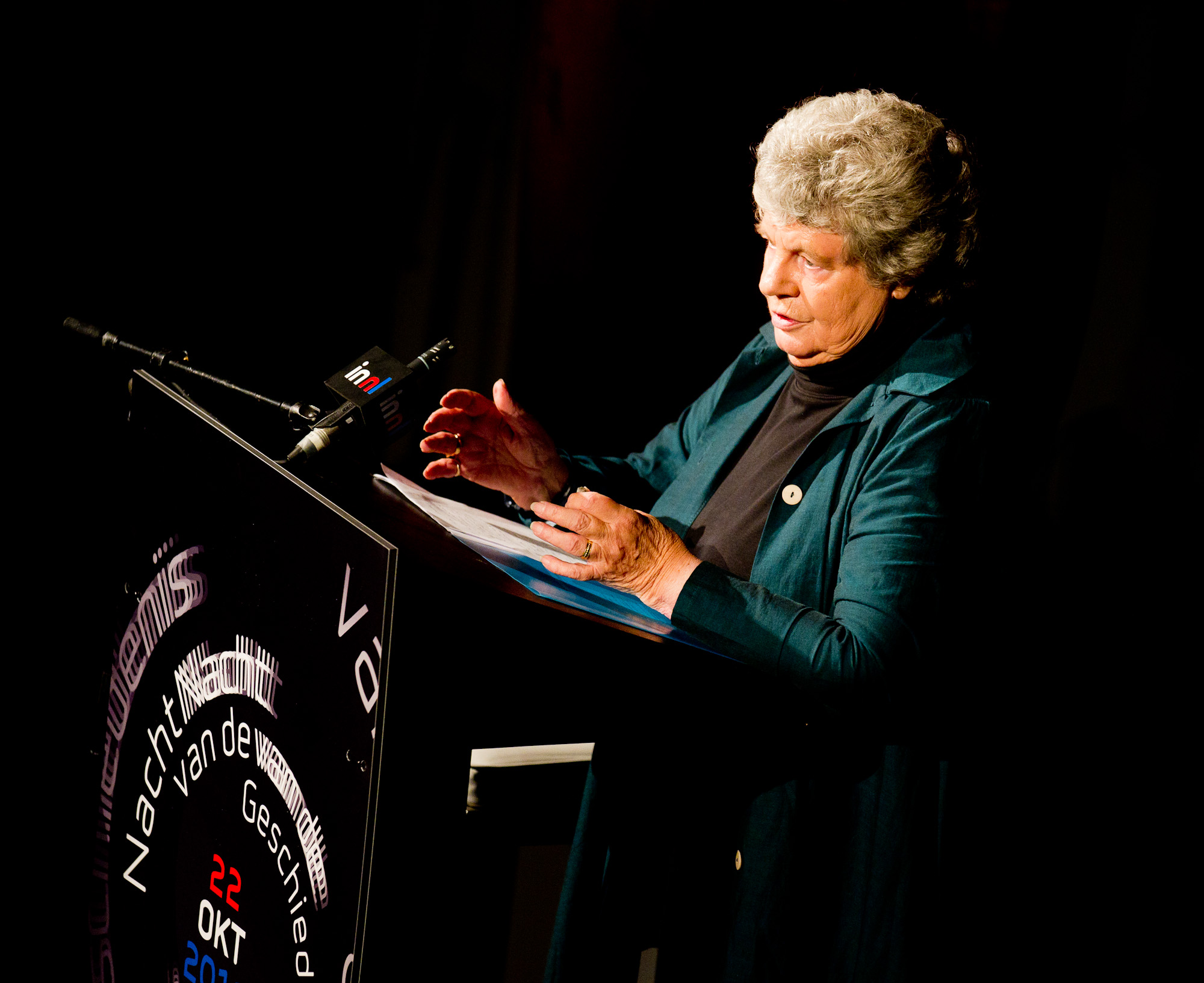 A. S. Byatt speaking in Amsterdam, 22 Oct. 2011